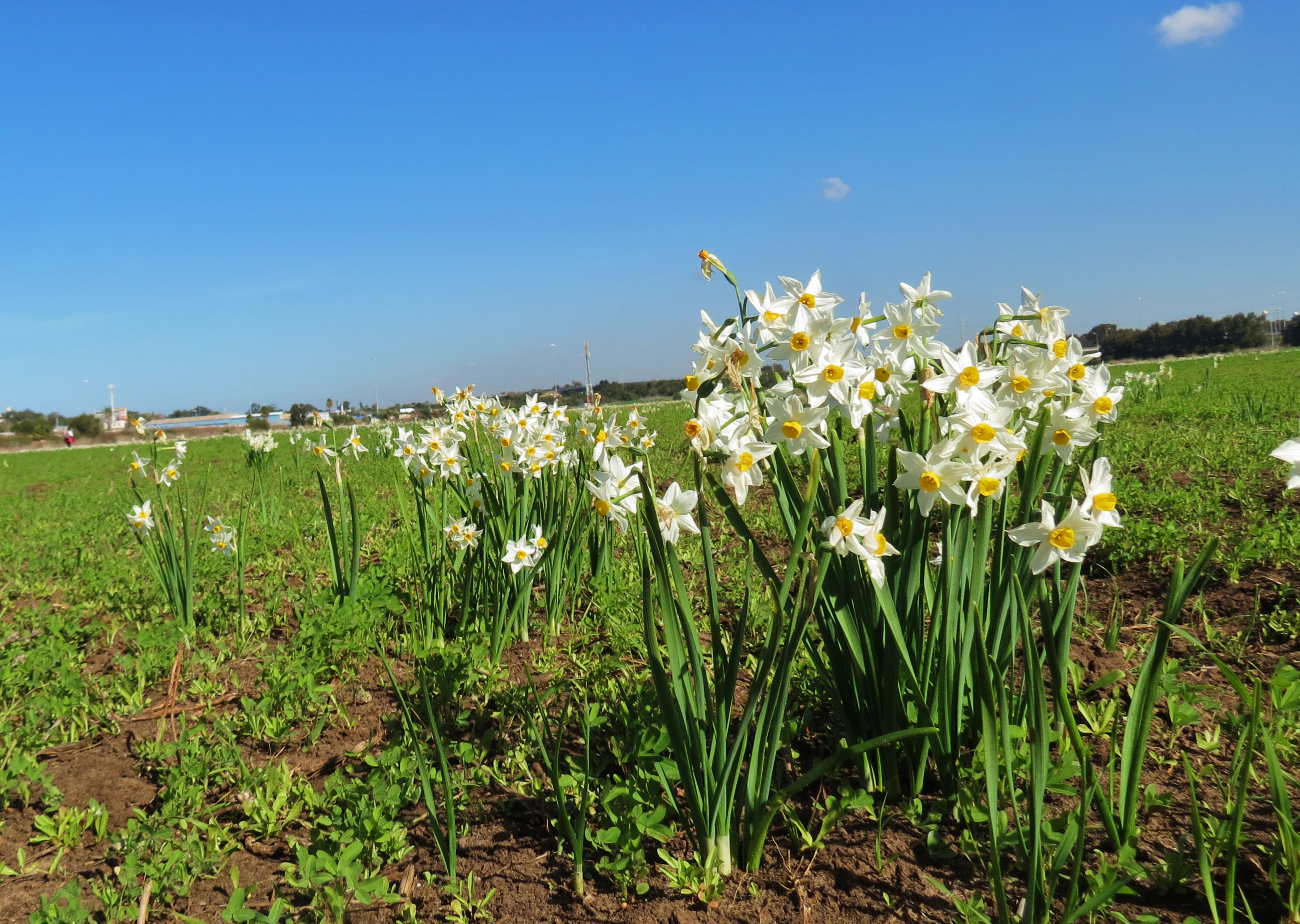 Nature and Colors